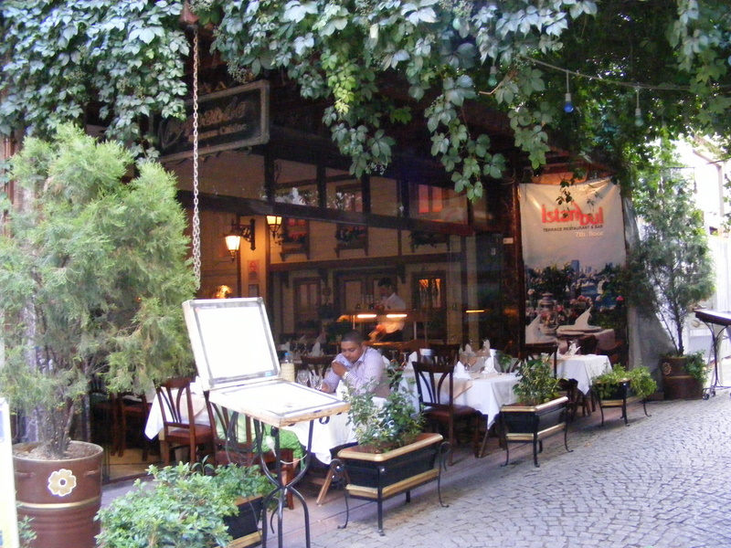 Pasazade restaurant in Istanbul